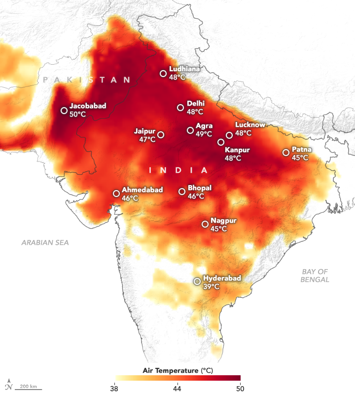 This picture shows the 2019 Indo-Pakistani heat wave across north India and Pakistan. Picture belongs to NASA earth observatory